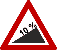 Diagram of road signs of Luxembourg